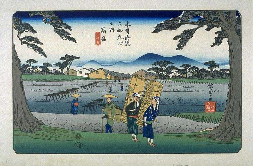 Takamiya on the Kisokaido, ukiyo-e prints by Hiroshige